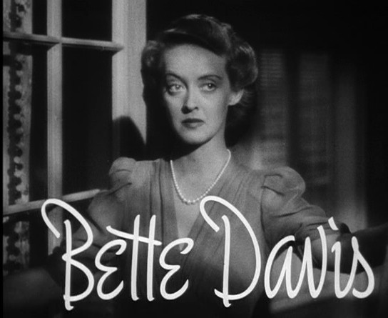 Cropped screenshot of Bette Davis from the trailer for the film The Letter.